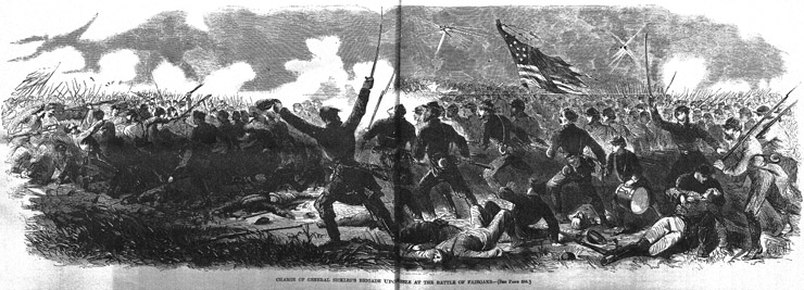 Charge of General Sickles's brigade upon rebels at the Battle of Fairoaks. Illustration from Harper's Weekly, June 21, 1862, Pages 392-393.